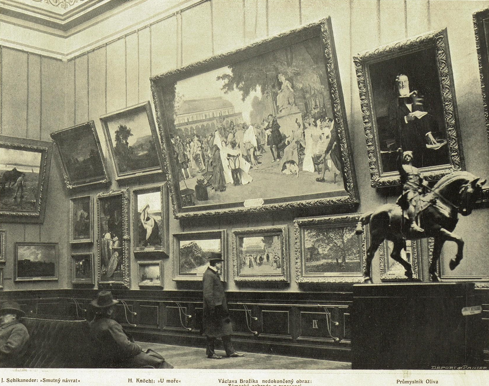 Gallery in Rudolfinum, Prague, 1904